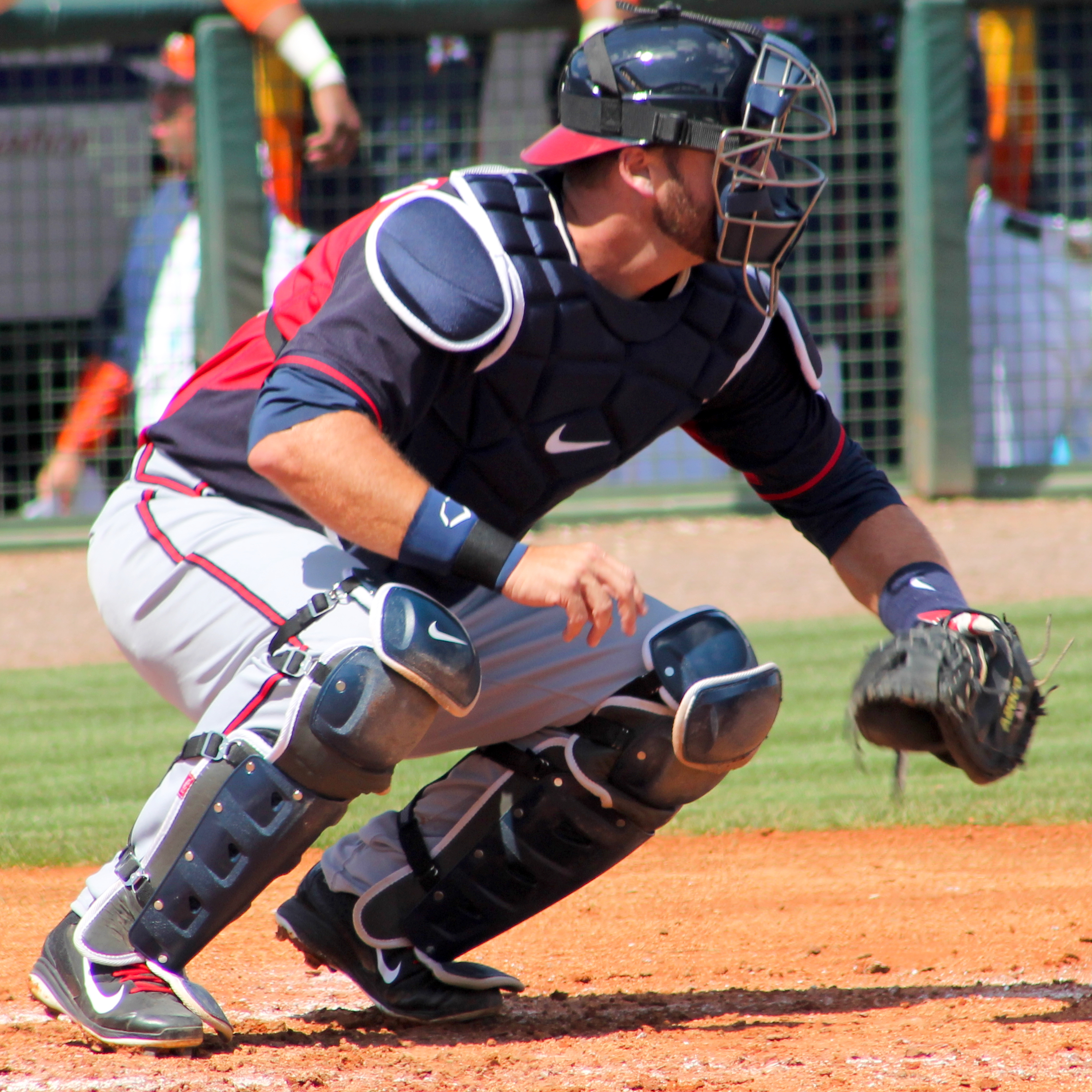 Professional baseball player A. J. Pierzynski catches a pitch in spring training in 2015.